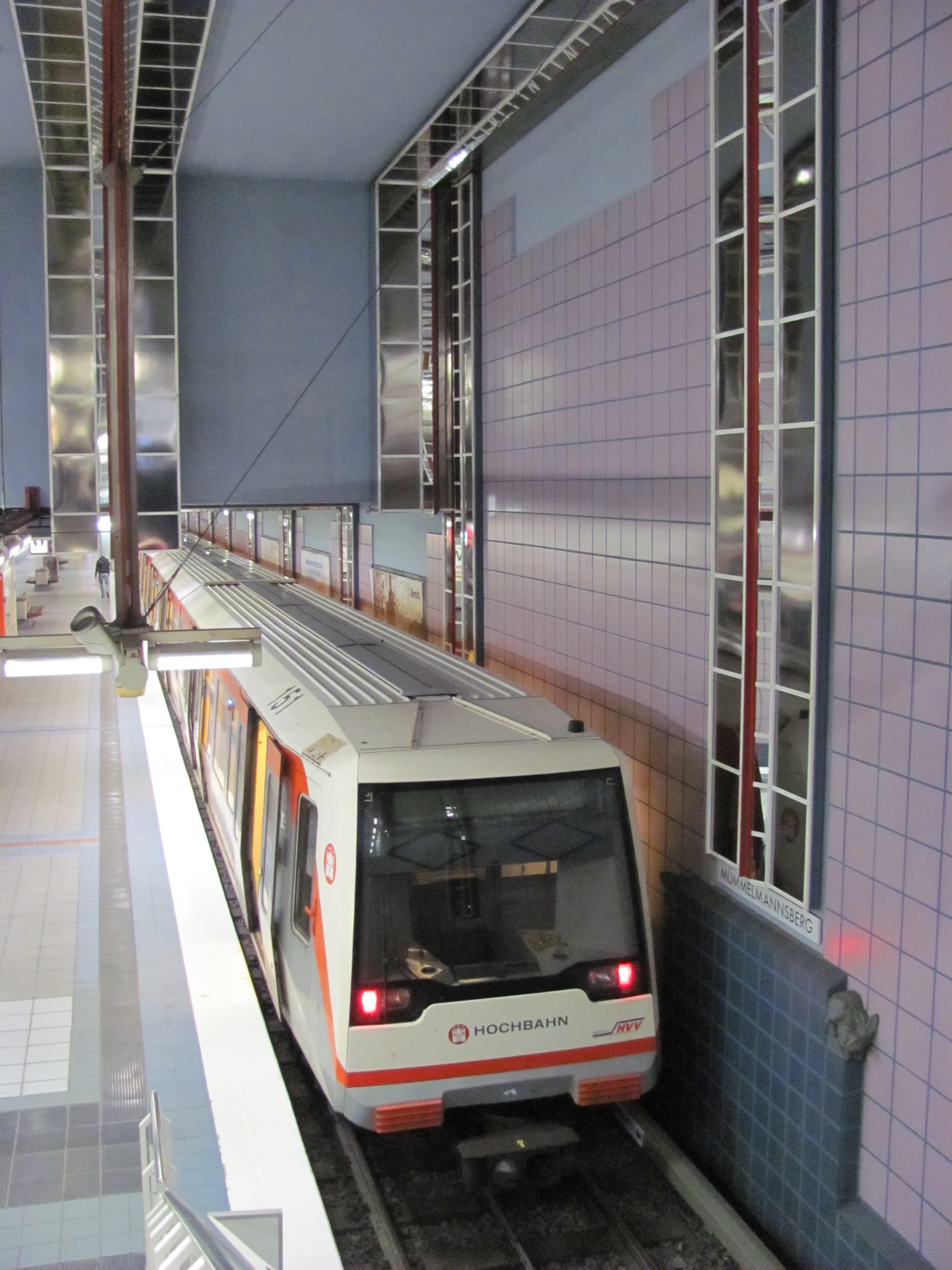 U-Bahn station Mümmelmannsberg in Hamburg, Germany